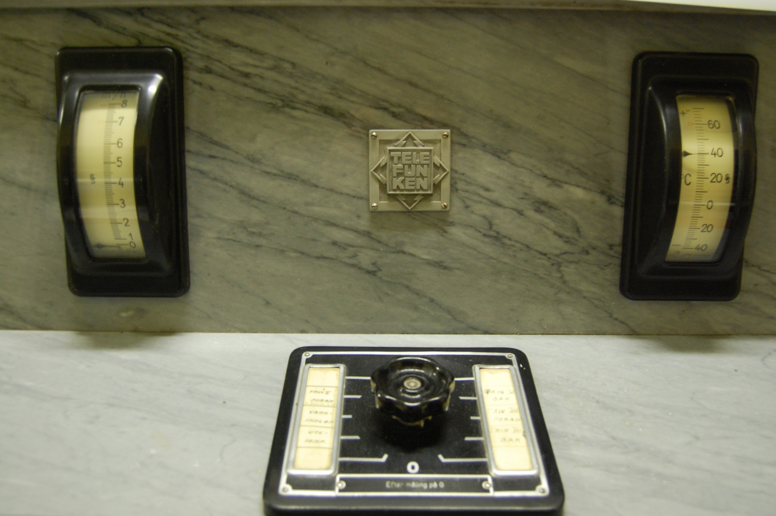 Telefunken control panel at Bergen kringkaster, Askøy, Norway